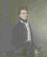 Portrait of Henry Byam Martin.